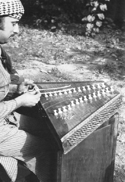 Iraqi santur player Saad al-Ubaydi c.1977